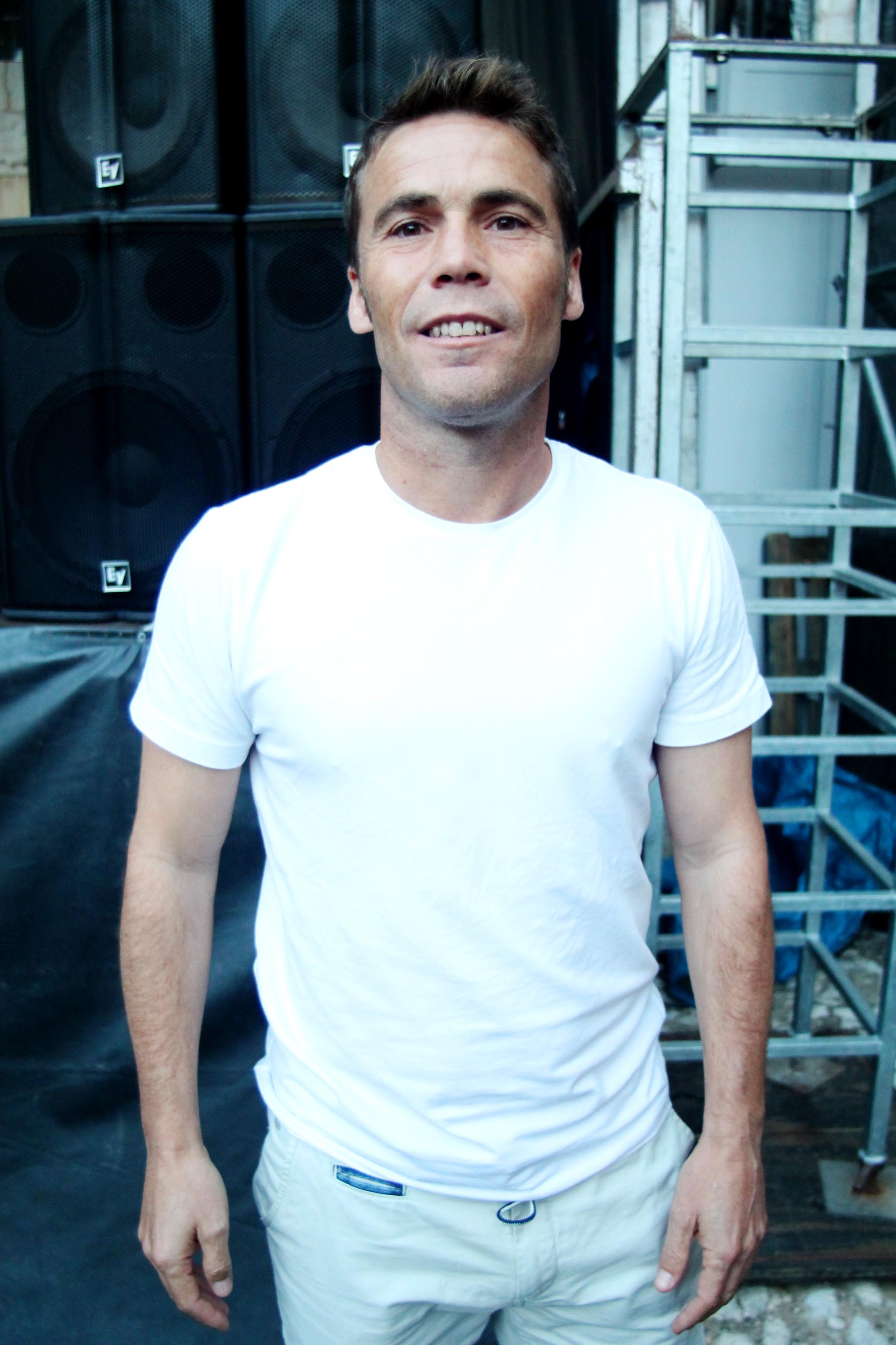 Rubi, football coach, in Valladolid.